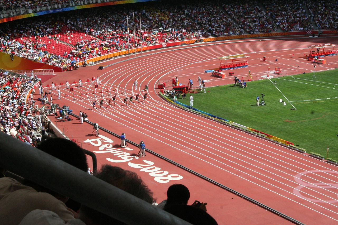 Athletics Heats 2008, Beijing National Stadium.